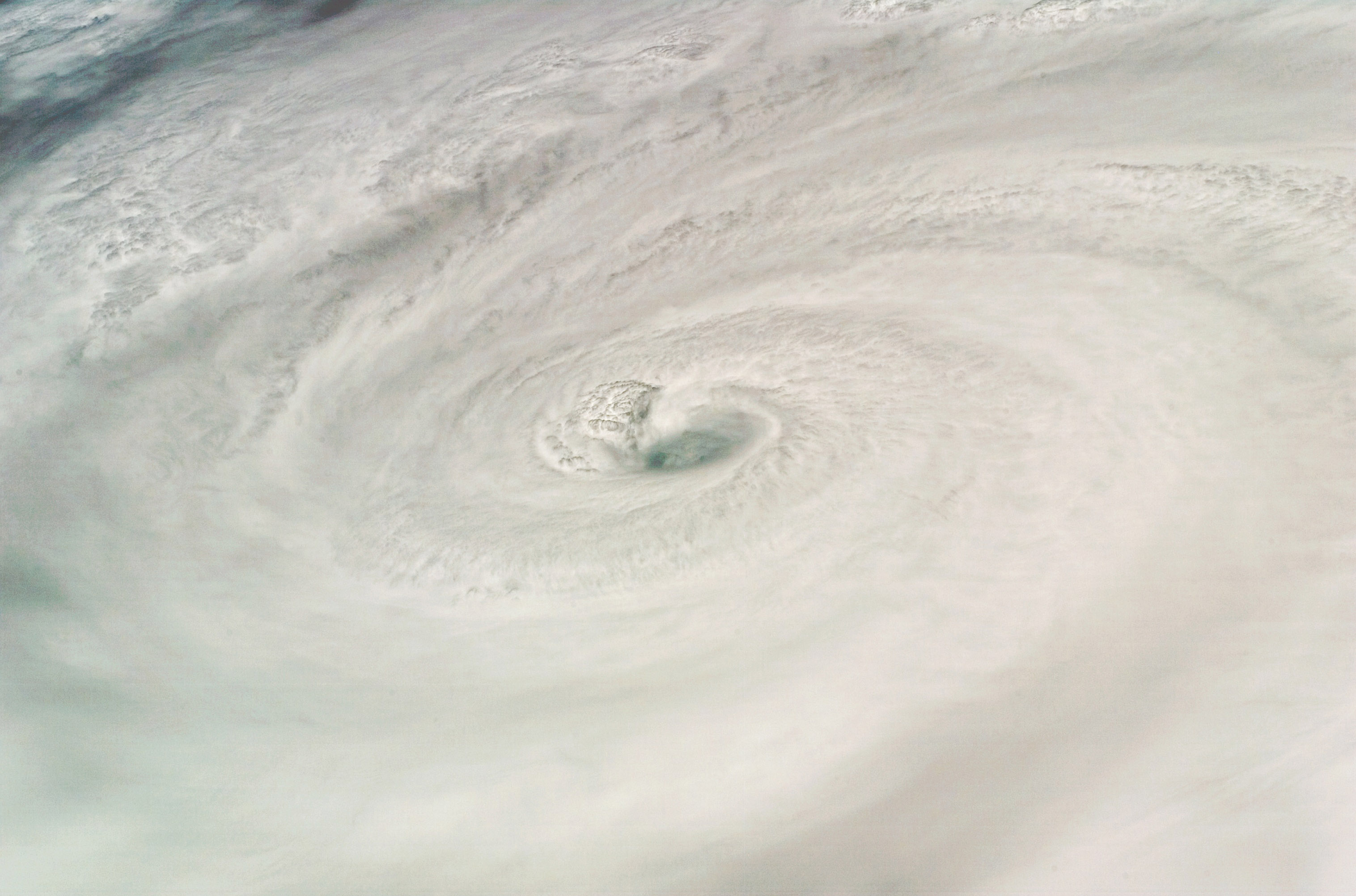 Original description: S118-E-07920 (18 Aug. 2007) --- Crewmembers on the Space Shuttle Endeavour captured this image around Noon CDT of Hurricane Dean in the Caribbean. At the time the shuttle and International Space Station passed overhead, the Category 4 storm was moving westerly at 17 mph nearing Jamaica carrying sustained winds of 150 mph.